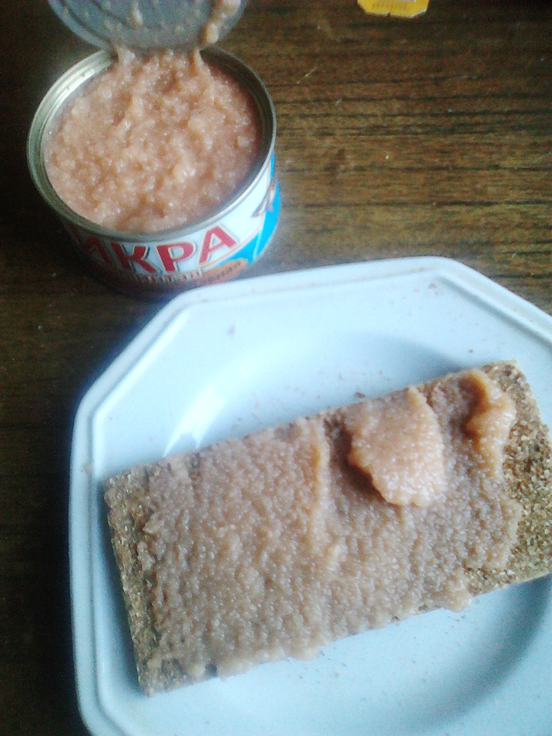 Canned Alaska pollock roe served on crisp rye bread